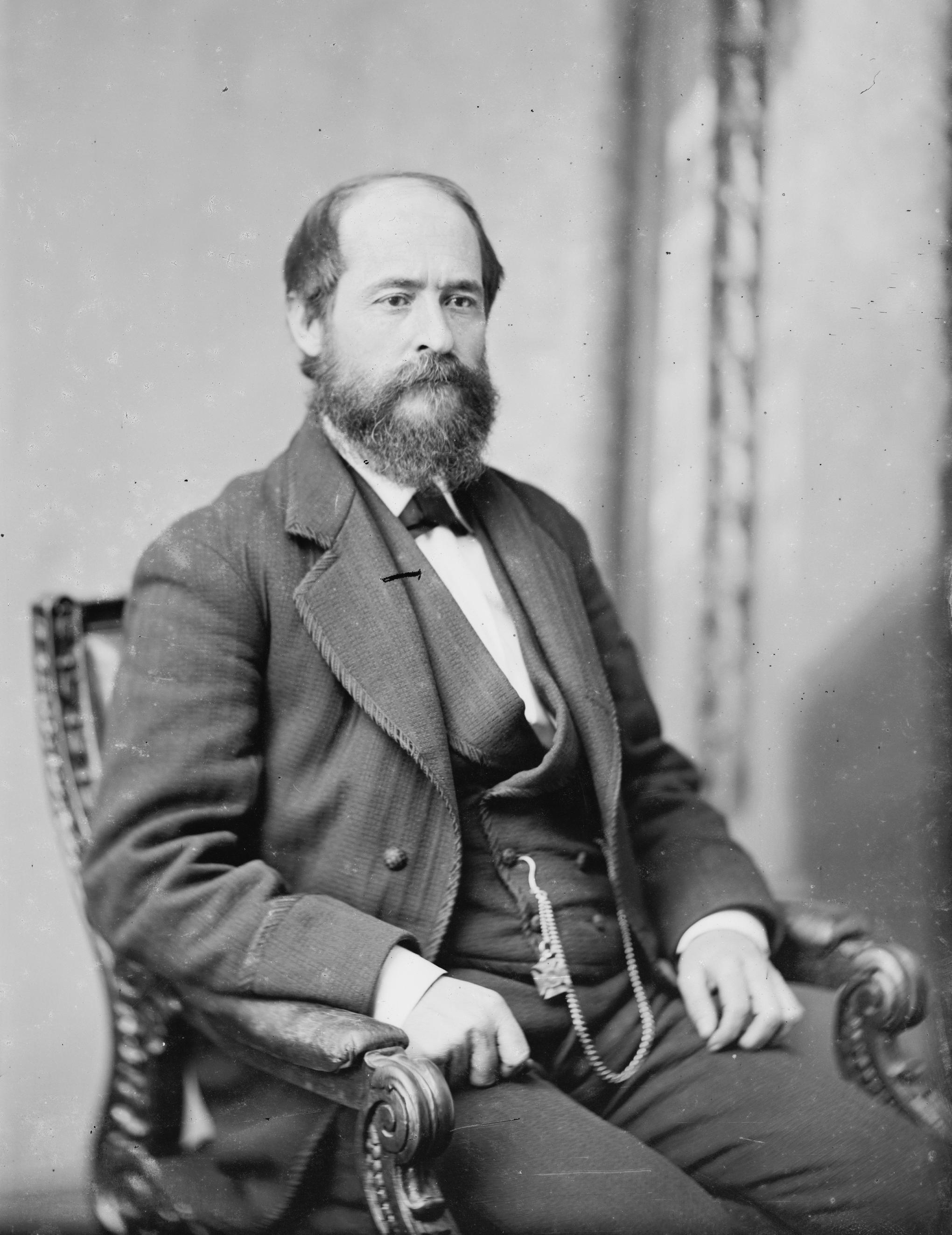 Richard Parks Bland ( August 19 1835 – June 15 1899), American school teacher, lawyer, and Democratic Congressman from 1873 until 1899. (This summary was created using Commons SumItUp)